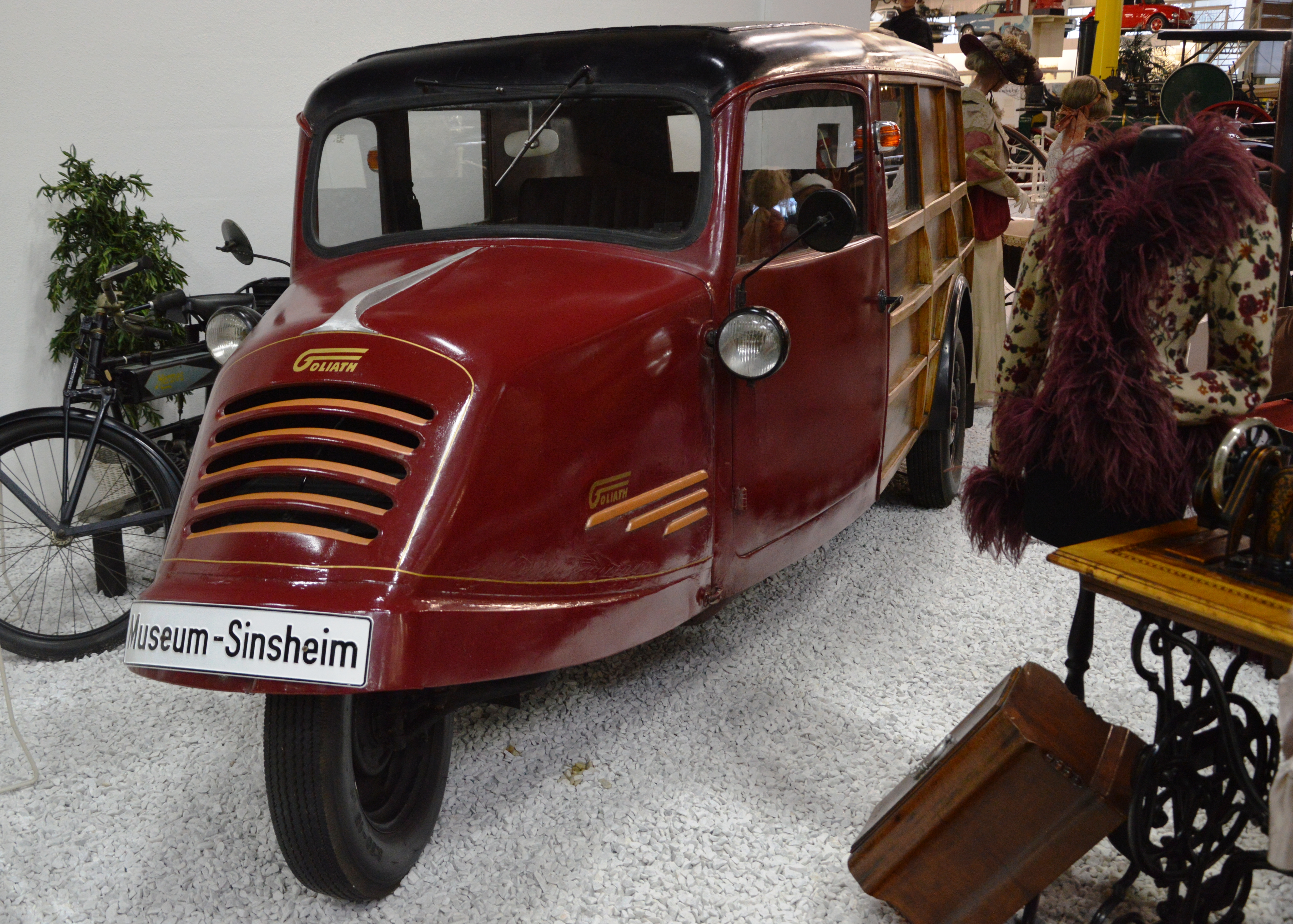 Goliath GD 750 three-wheeler. Built 1952. Wooden construction. 396 cm³, 2 cylinder, 14 HP. Typical small truck in the fifties in Germany. Photo taken 2013 at Car & Technology Museum Sinsheim, Germany.